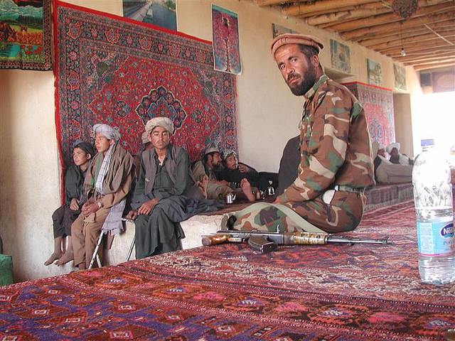 Afghan militia rests in a tea-shop in the town of Chest-e-Sharif, western Afghanistan. Kalashnikovs are a common sight in this part of the world